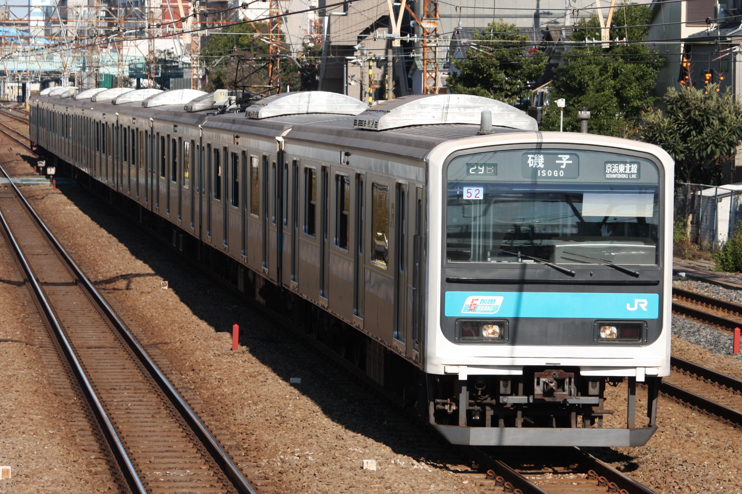 JR East 209 (Ura51), taken between Kamata and Kawasaki (Keihin-Tohoku Line).